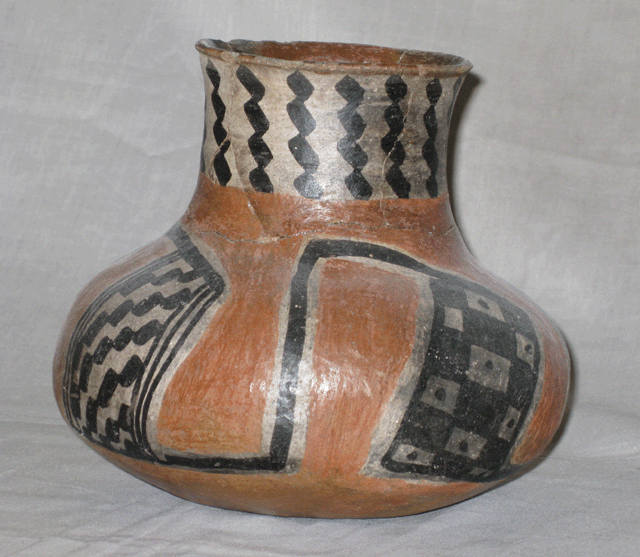 Tonto Polychrome Jar from the collections of the Maxwell Museum, University of New Mexico.